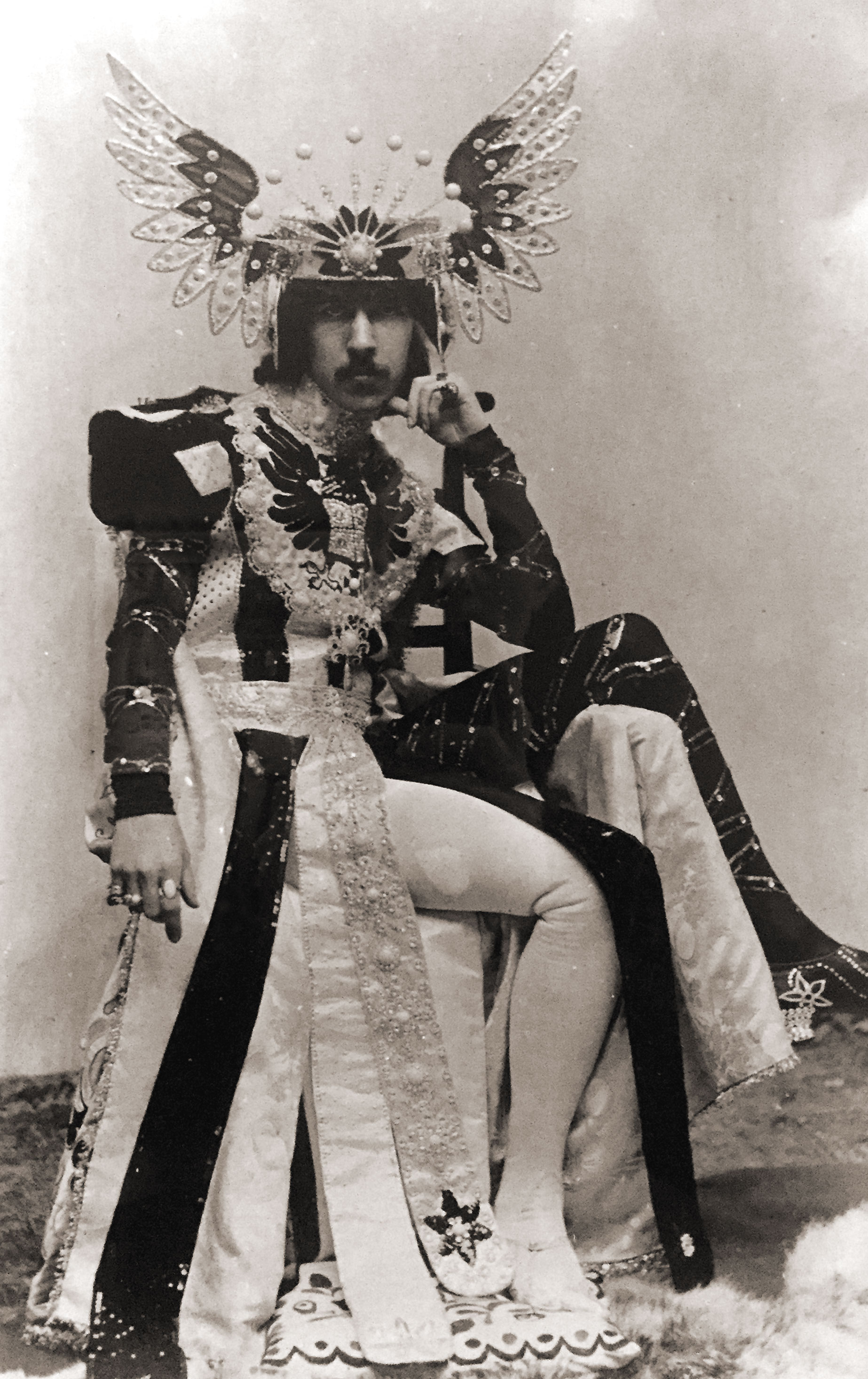 Photo portrait of Henry Paget, 5th Marquess of Anglesey by John Wickens